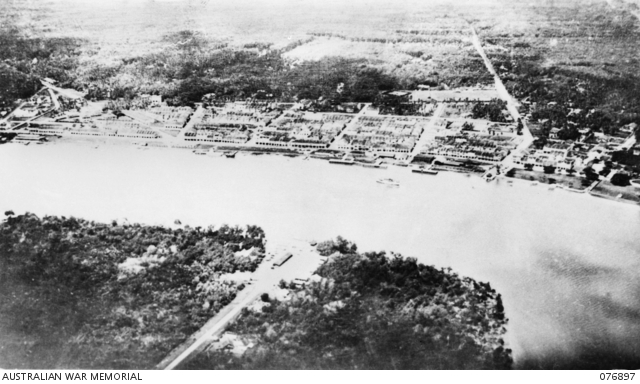 Malaya. 1945. The Muar Ferry Crossing, looking Southeast, where the 45th Indian Brigade group, part of "West Force" under the command of General G. Bennett, GOC, 8th Australian Division, was disposed along 24 miles of river front with detachments forward of the river, to cover the main coast road at Muar against the advance of the Japanese Guards Division in 1942-01.